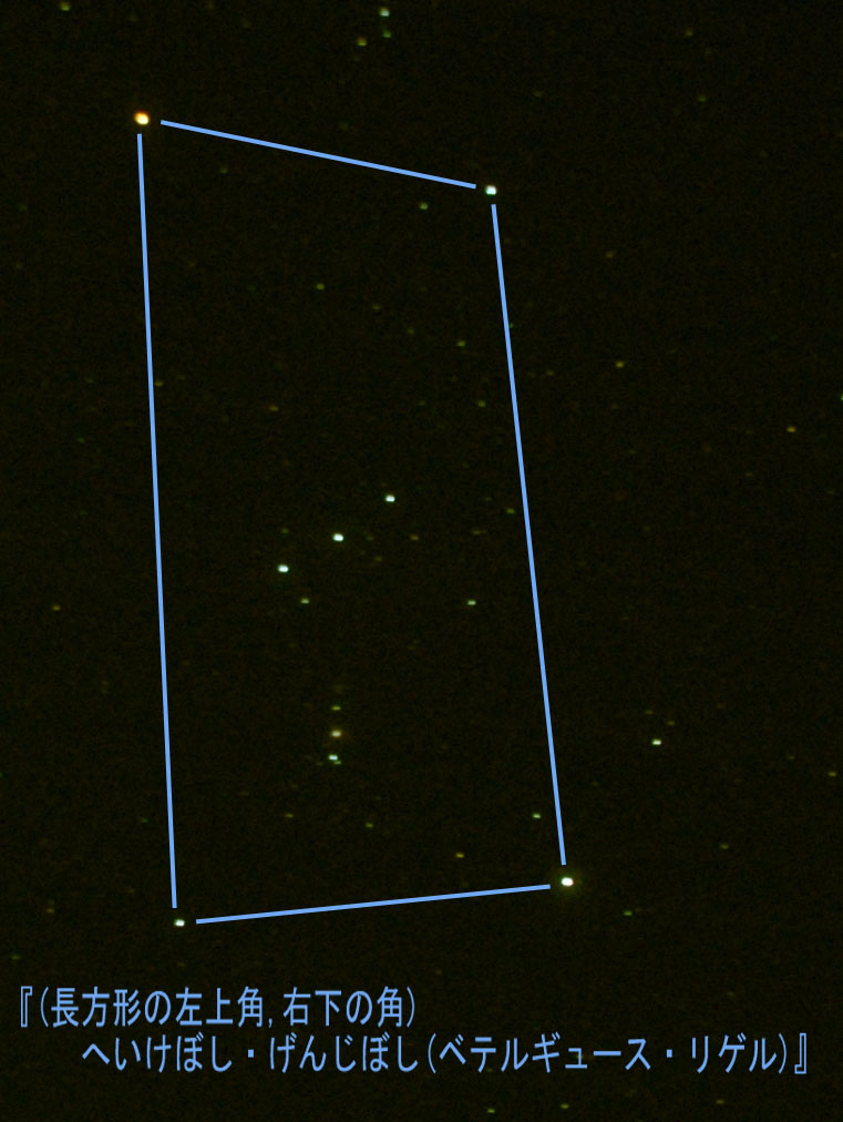 nightsky, Orion, Kitami, Hokkaido, Japan.(public domain of Wikimedia Commons)